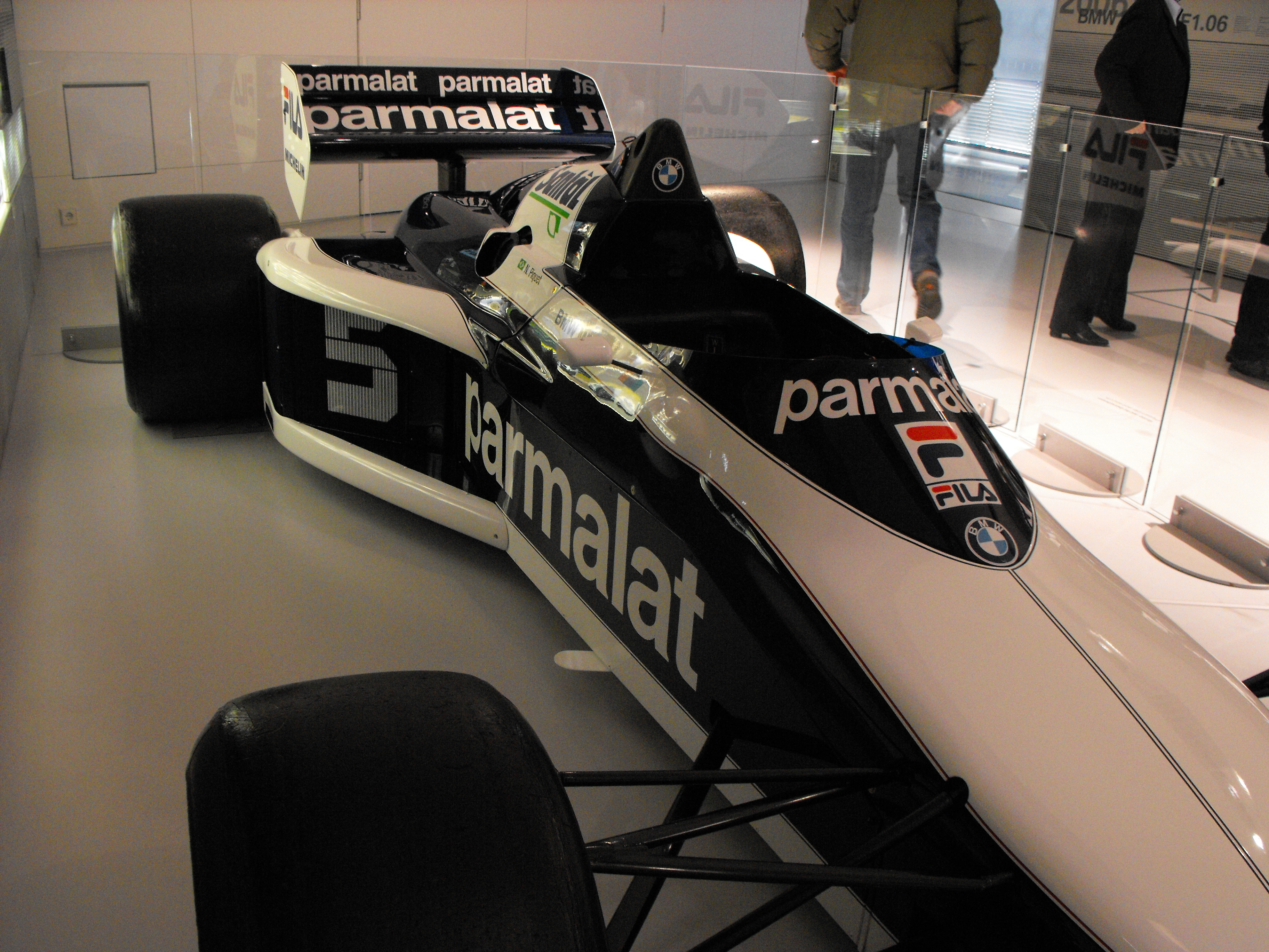 BRABHAM BMW BT52 1983